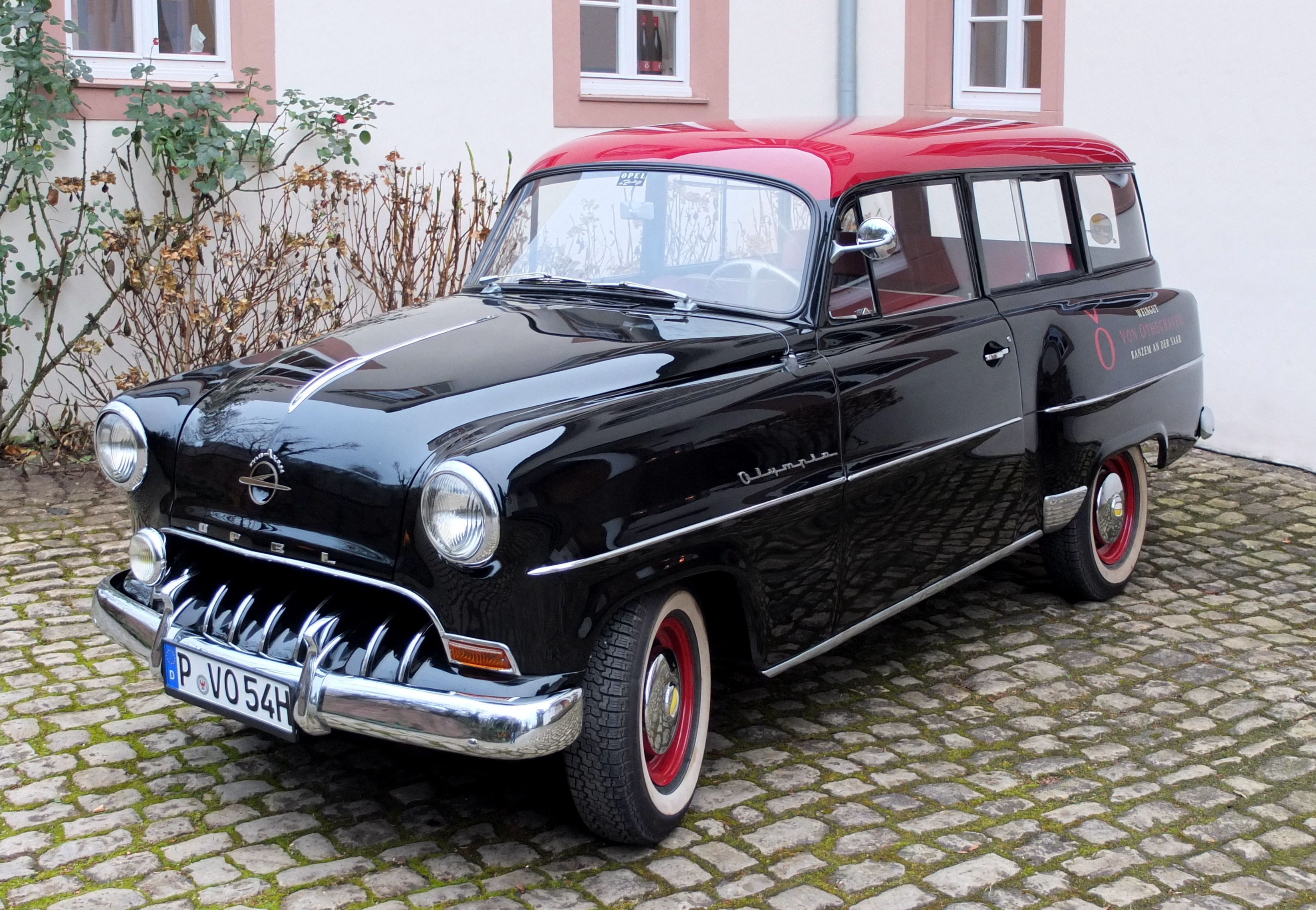 Opel Olympia-Rekord Caravan (built 1954) Image of the day in Wikipédia France, nov. 14, 2017